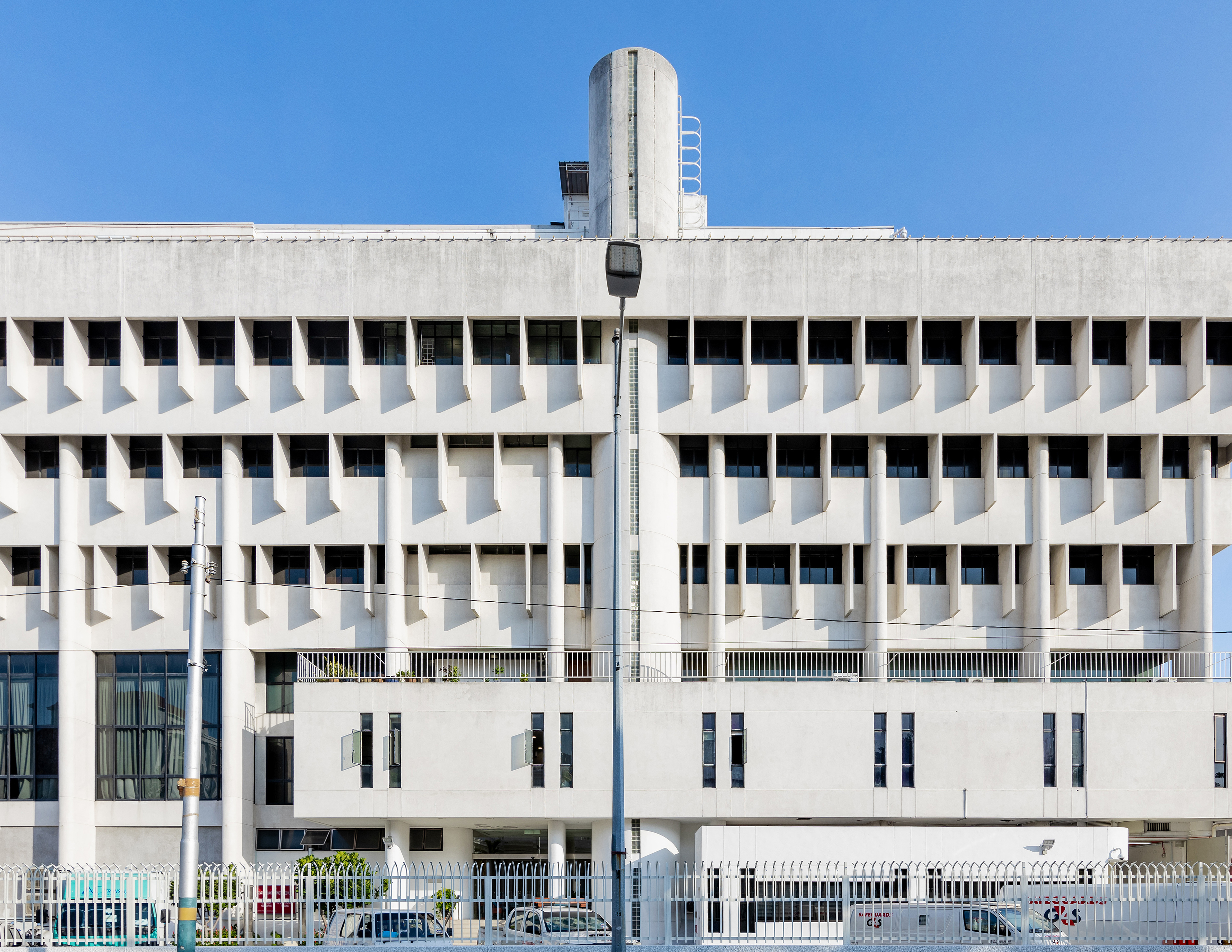 Central Bank of Malaysia, Penang Branch, Malaysia.